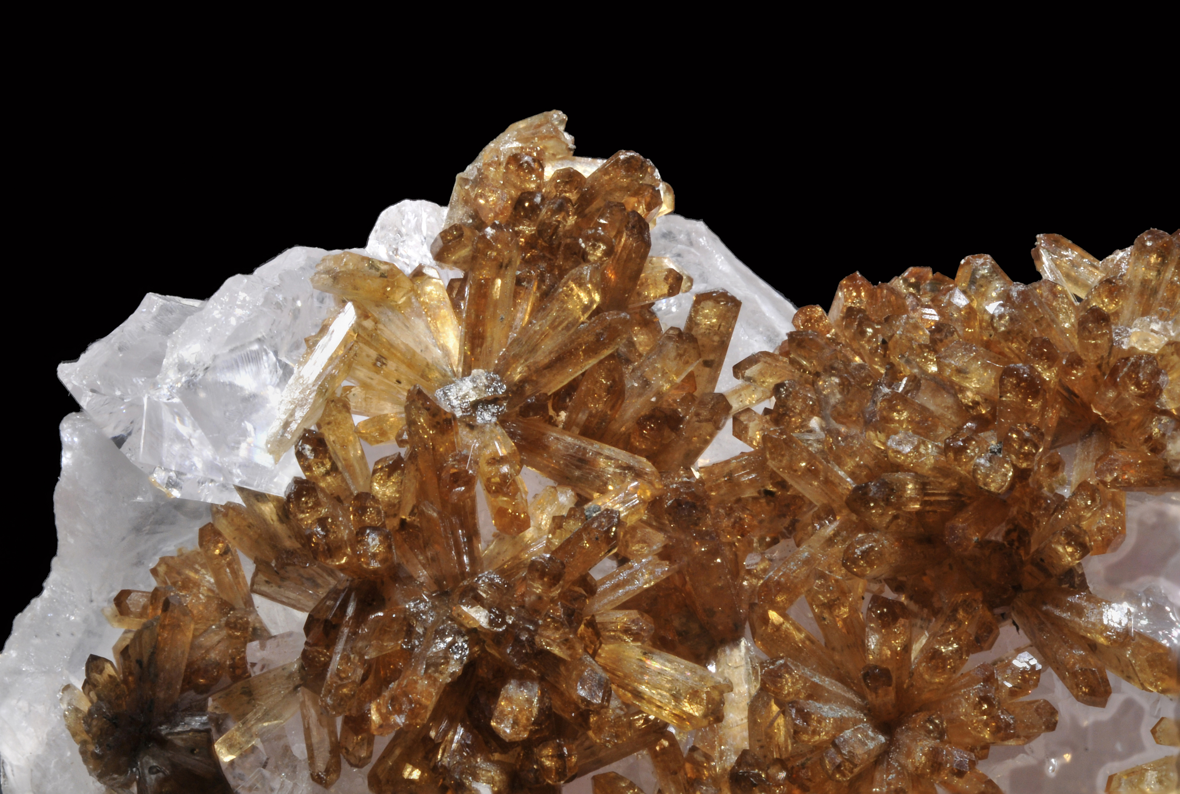 crystals of eosphorite, crystals of rose quartz : Ilha claim, Taquaral, Itinga, Jequitinhonha Valley, Minas Gerais Brazil